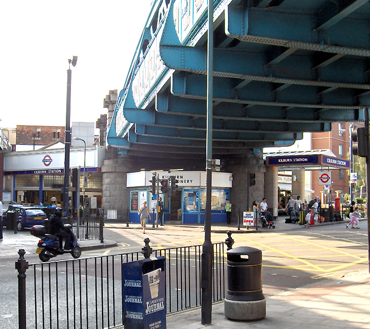 Kilburn tube station